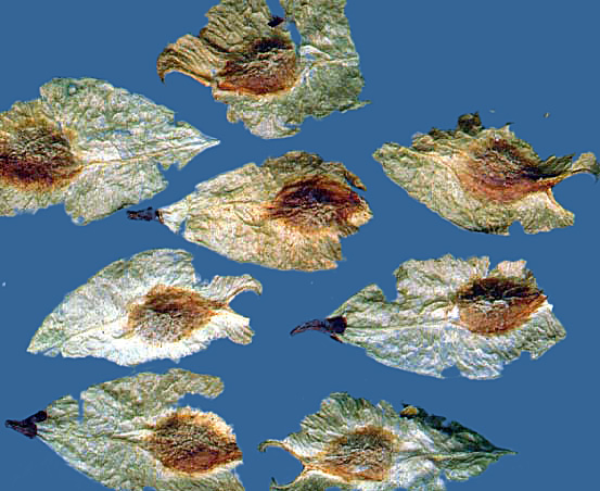 Ulmus japonica fruits